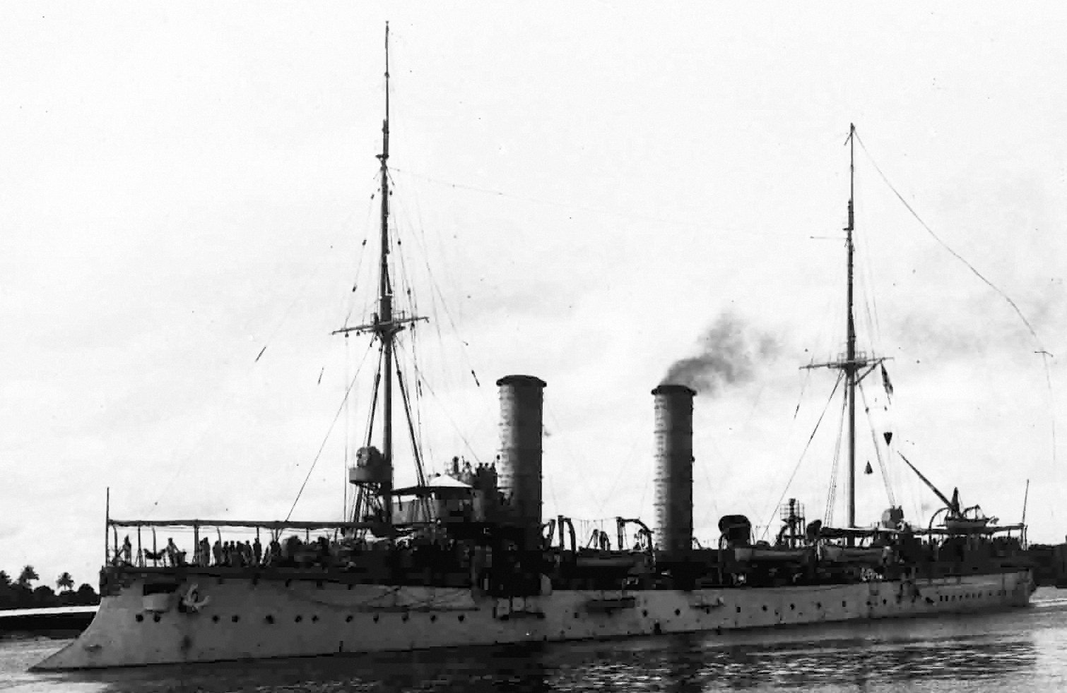 Small Cruiser SMS Thetis in the Harbour of Dar es Salaam, German East Africa (image cropped).